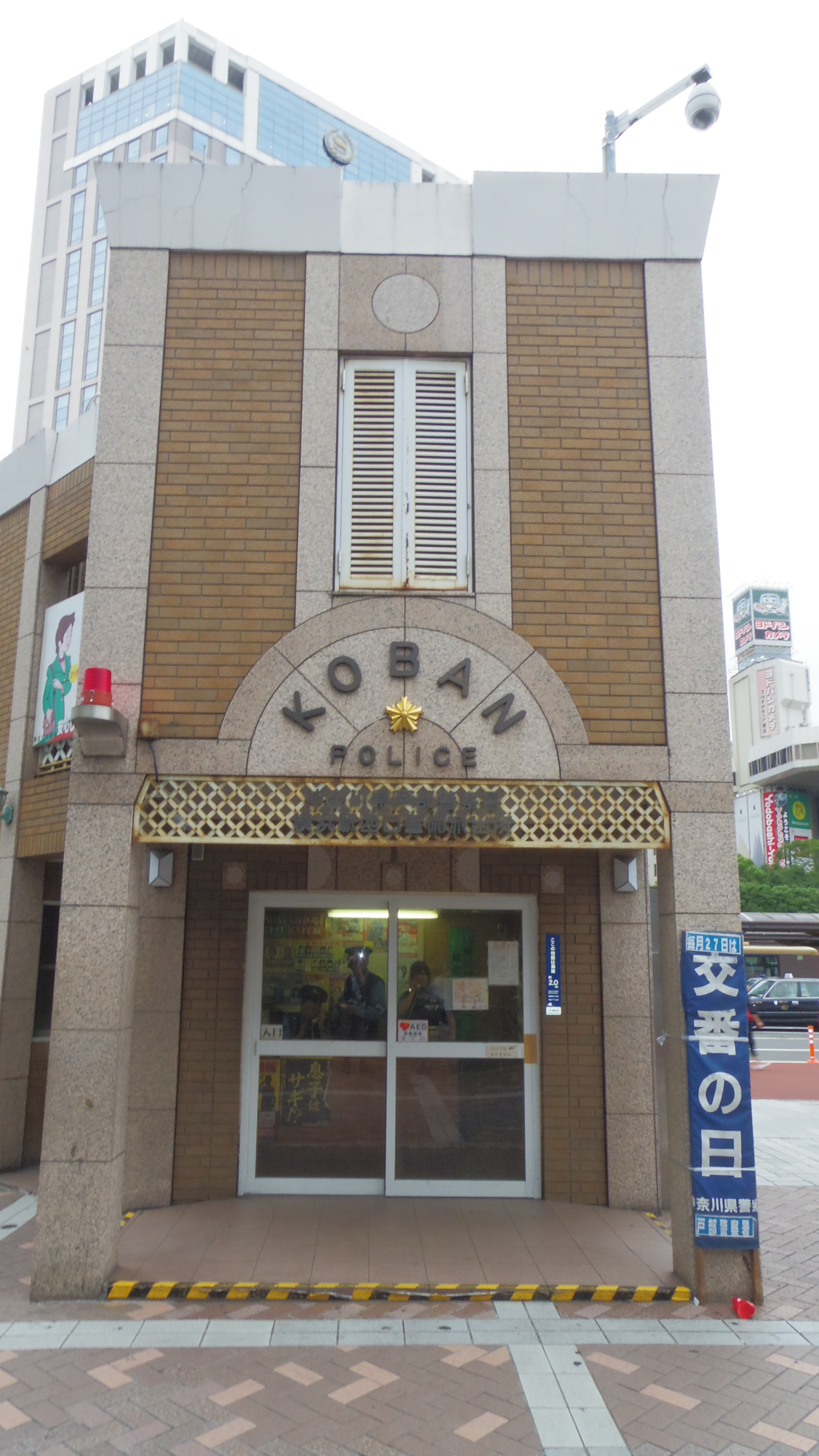 Yokohama Station West police station.